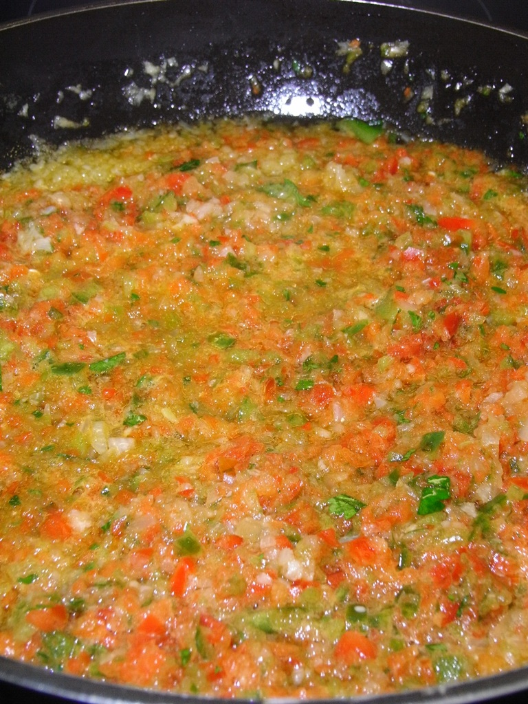 Detail of a sofrito (chopped vegetables fried in oil)